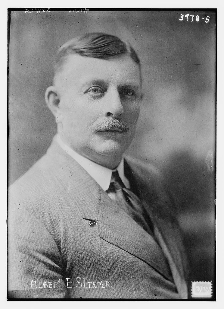 Albert Edson Sleeper (December 31, 1862 – May 13, 1934) in 1916